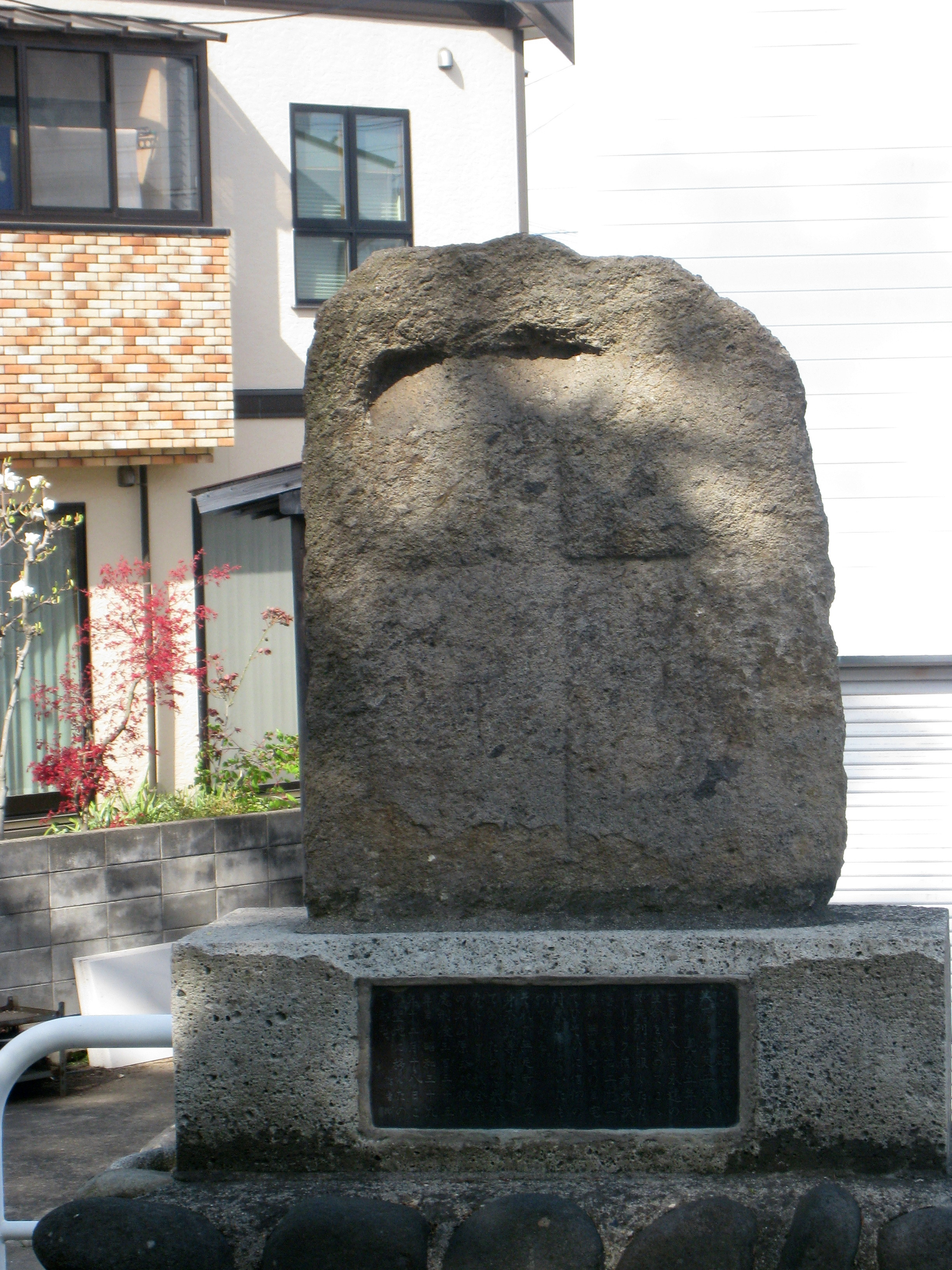 Hokusanbara Martyr Memorial (Hokusanbara junkyo iseki) in Yonezawa City, Yamagata Prefecture, Japan